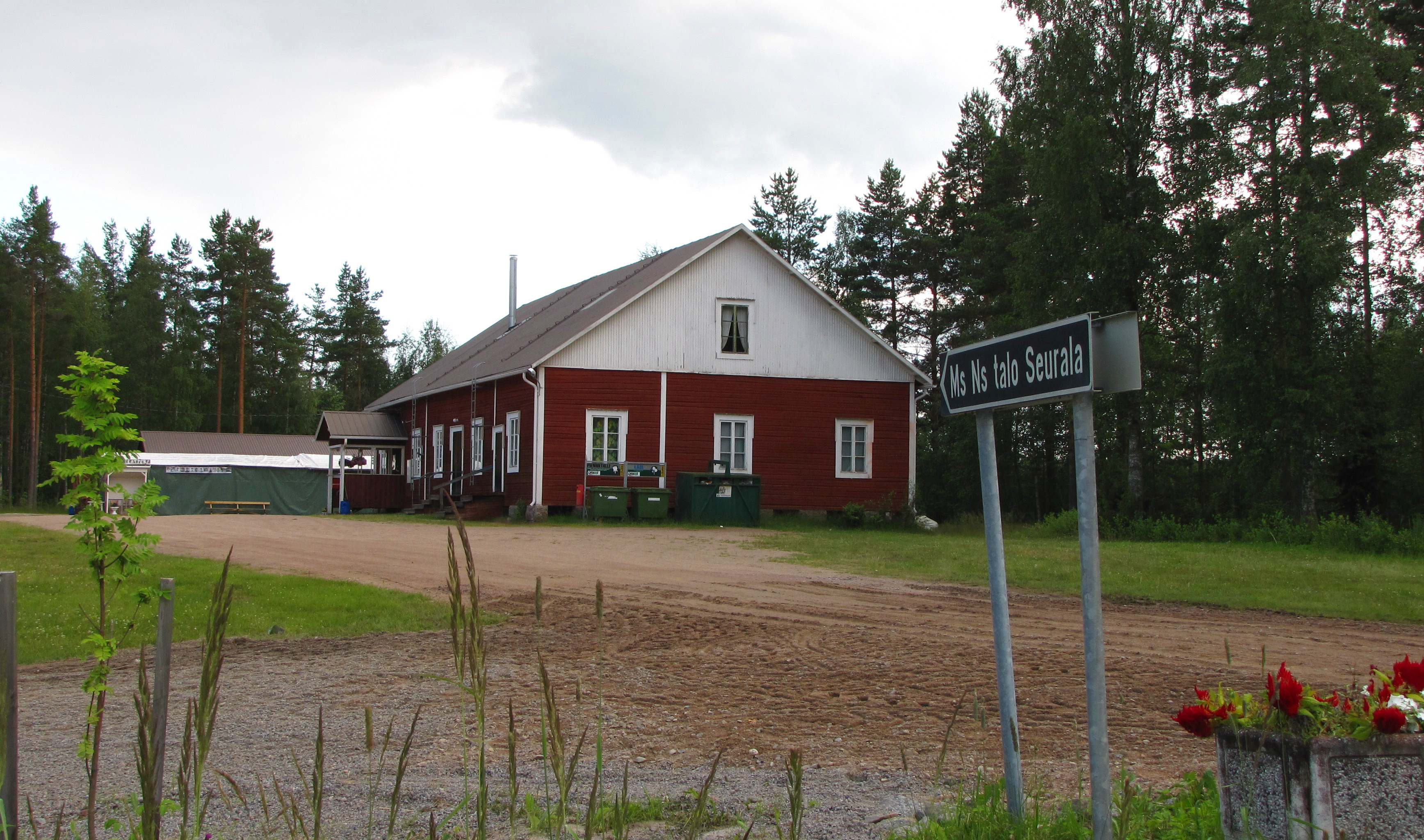 Seurala house in Ylivalli village, Jalasjärvi, Finland.